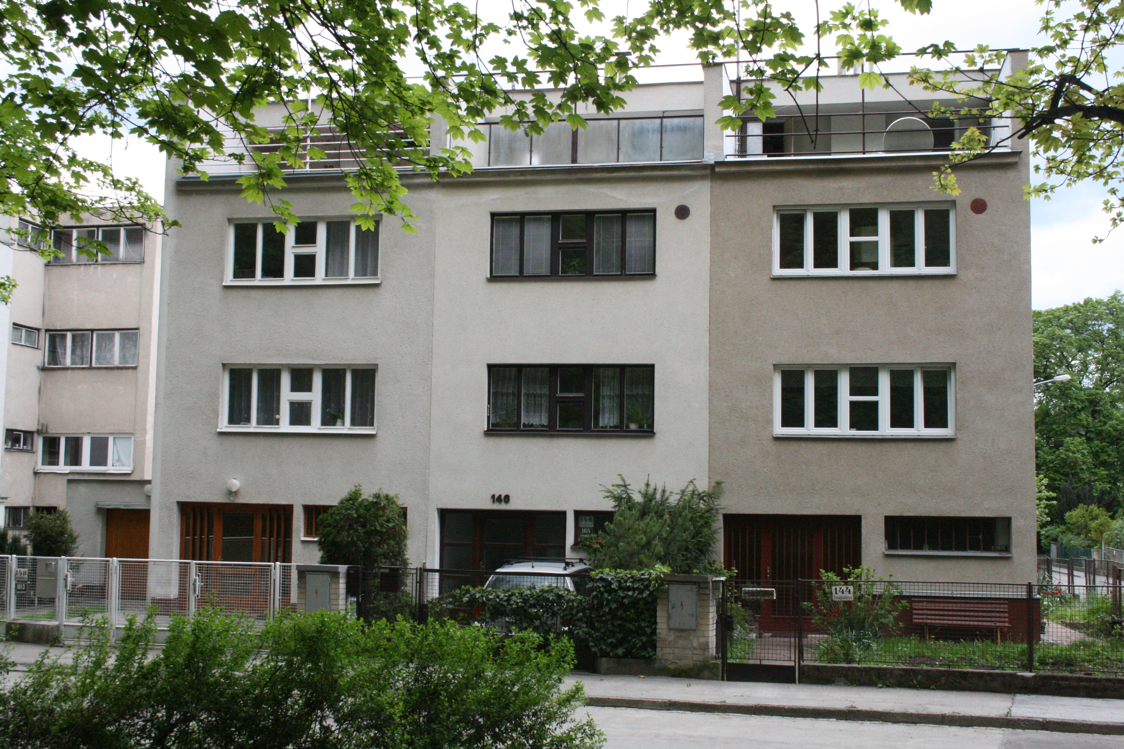 "Nový dům" (New House) settlement - 16 functionalist houses built in 1928 on occasion of an annual exhibition of contemporary culture, Brno, Czech Republic. Česky: Kolonie Nový dům - obytný komplex 16 funkcionalistických rodinných domků zbudovaných v roce 1928 v rámci jubilejní výstavy soudobé kultury. Trojdům architekta Jaroslava Grunta ve Šmejkalově ulici, Brno-Žabovřesky.